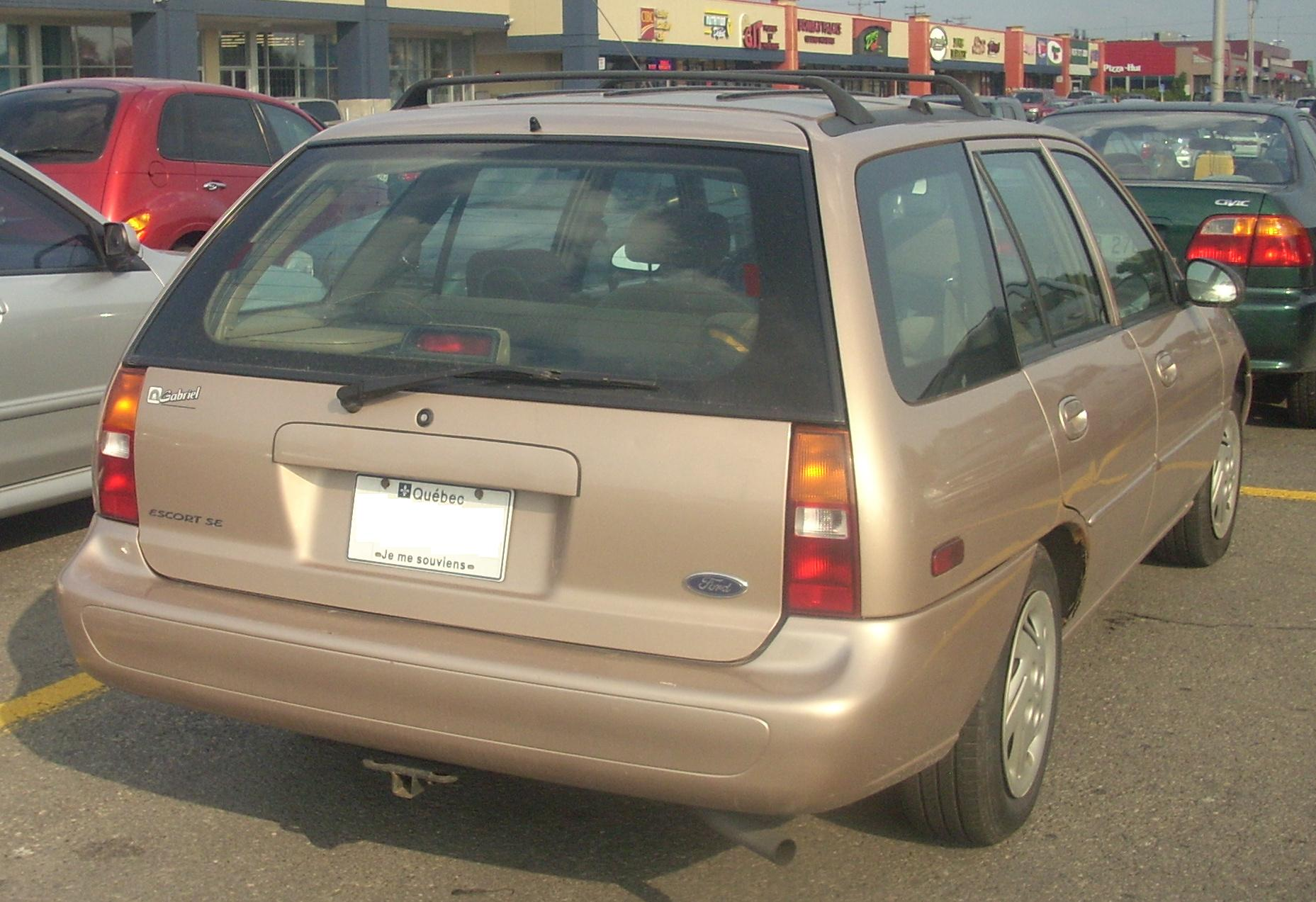 1997-1999 Ford Escort photographed in Montreal, Quebec, Canada.